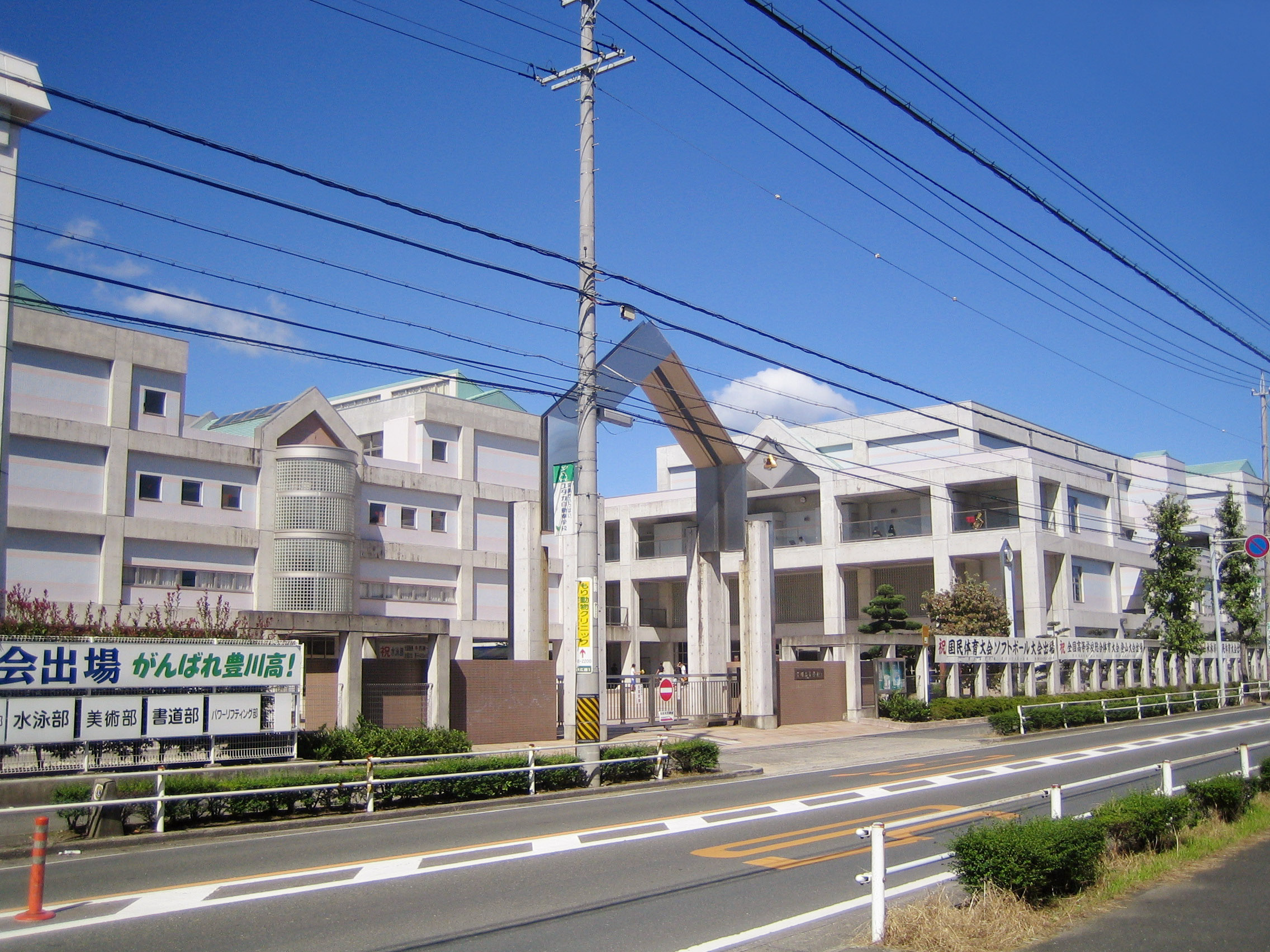 Toyokawa High School (豊川高等学校), at Toyokawa, Aichi, Japan